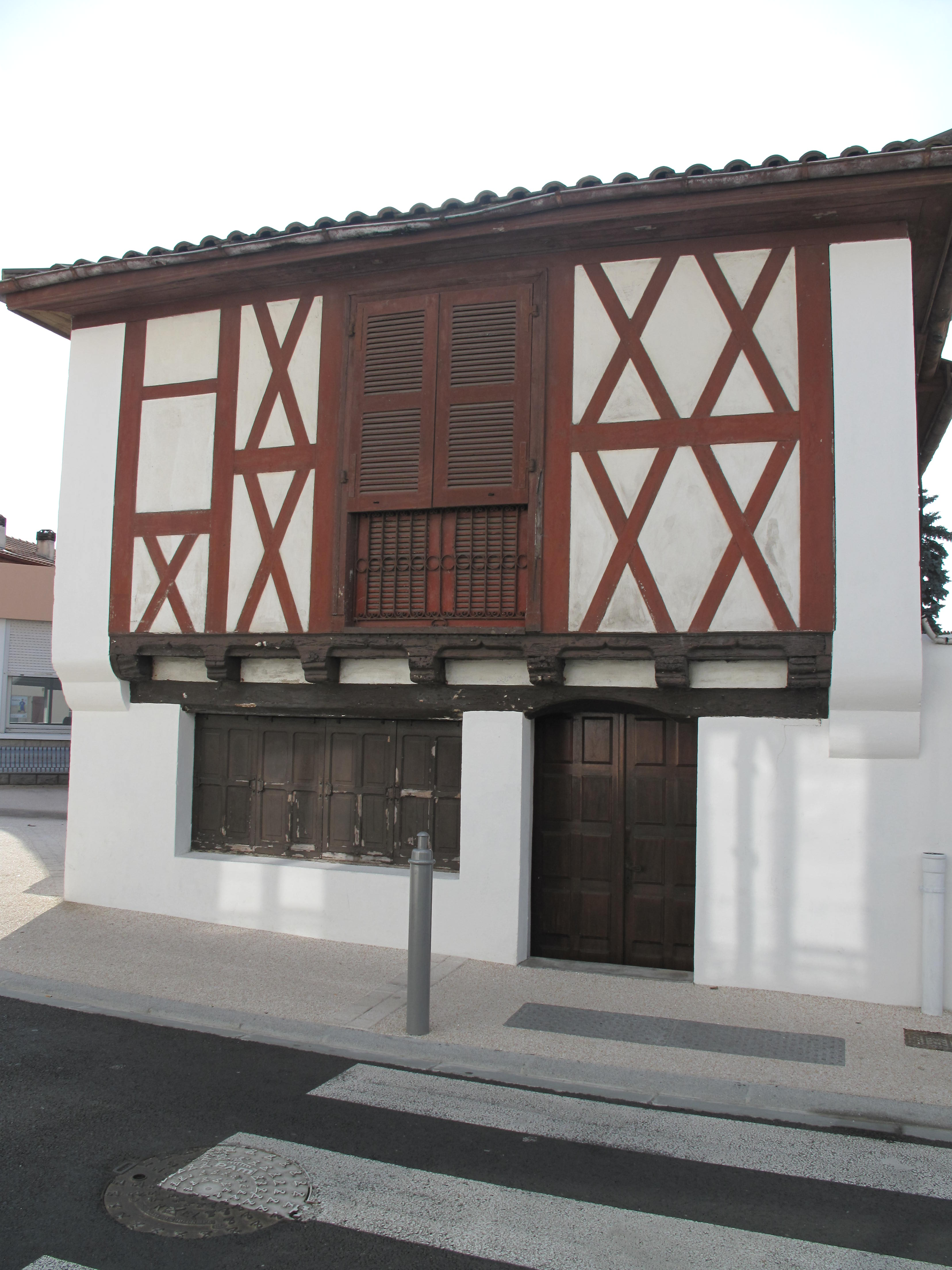 Maison Brebet, 56 rue Charles-de-Gaulle in Capbreton (Landes, France).